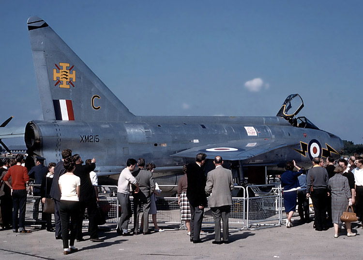 Lightning F.1A XM215 at Farnborough Air Show, England, in 1964.